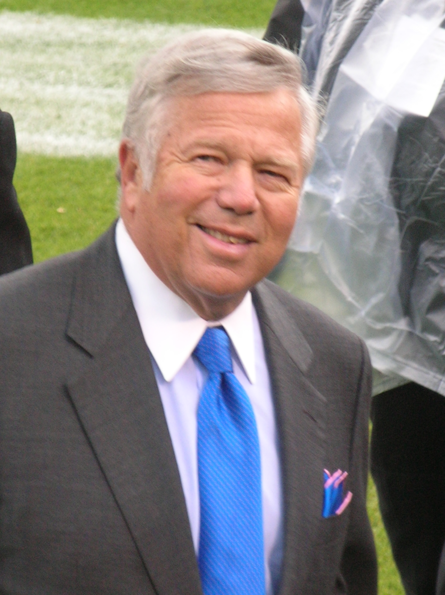 New England Patriots owner Robert Kraft on the field prior to an away game against the Oakland Raiders. The Patriots won 49-26.